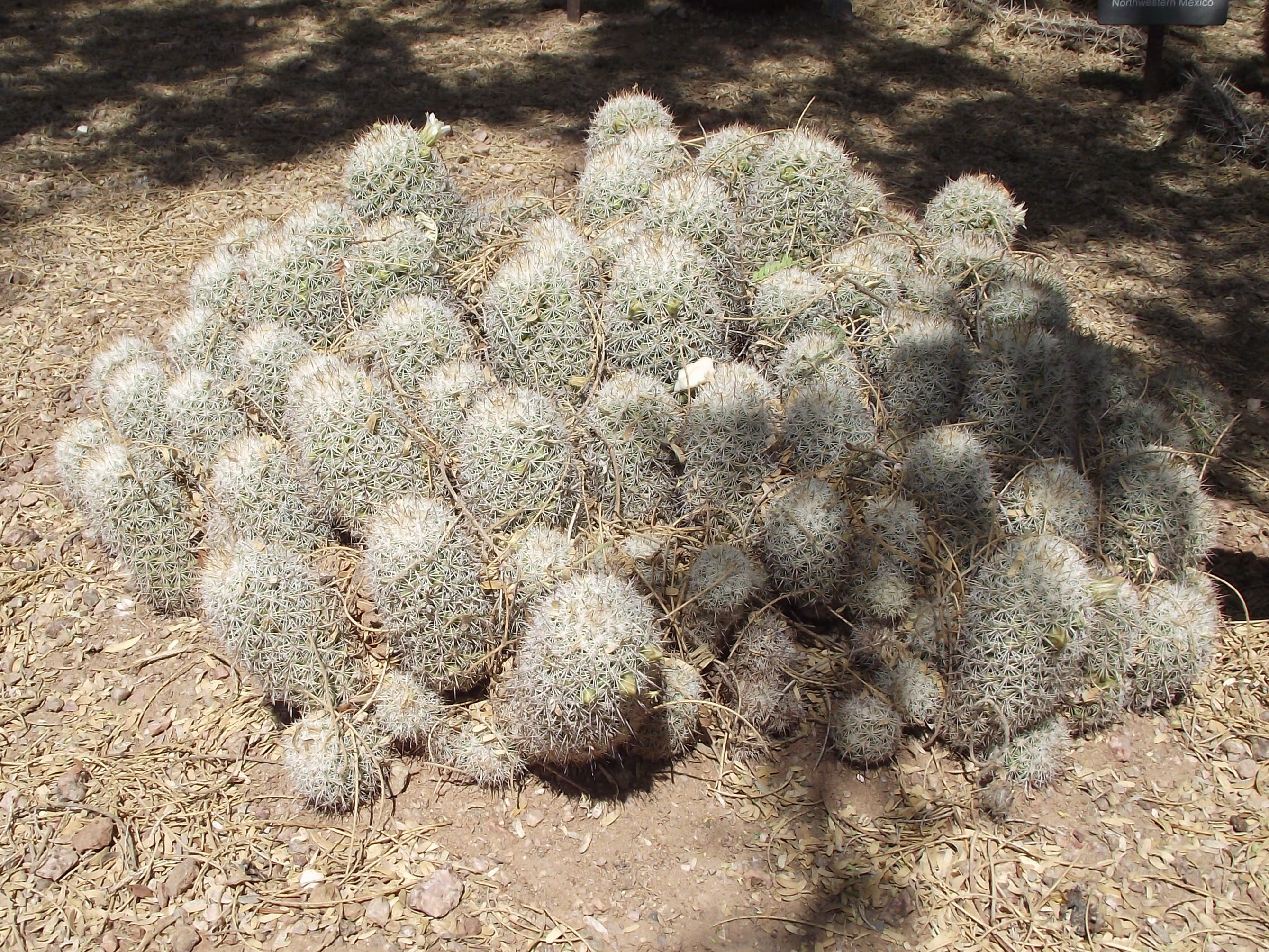 Mammillaria albicans at Desert Botanical Garden, Phoenix, Arizona, USA. Identified by sign.